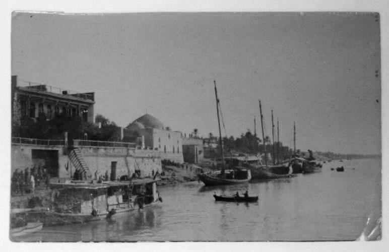 River Front with People in a Row Boat, Baghdad, Iraq, World War I, 1917-1919